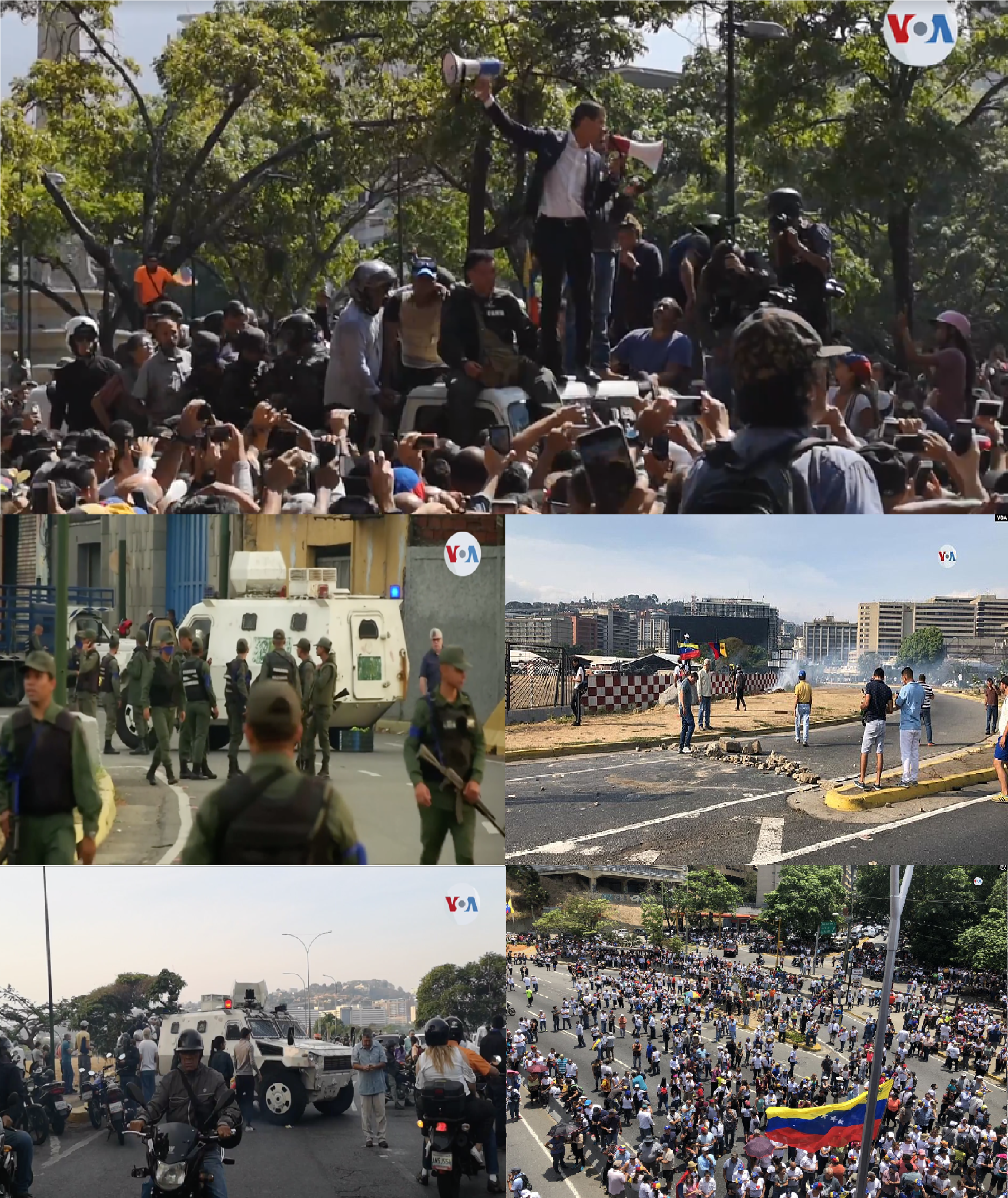 Uprising against Nicolás Maduro of 2019